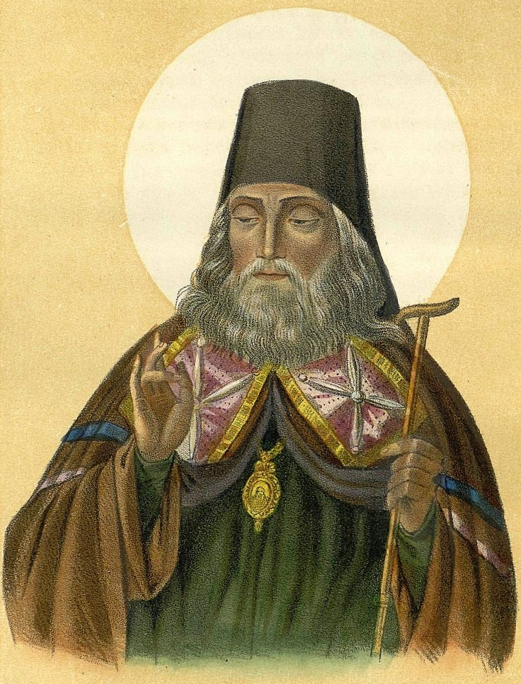 Tikhon of Zadonsk